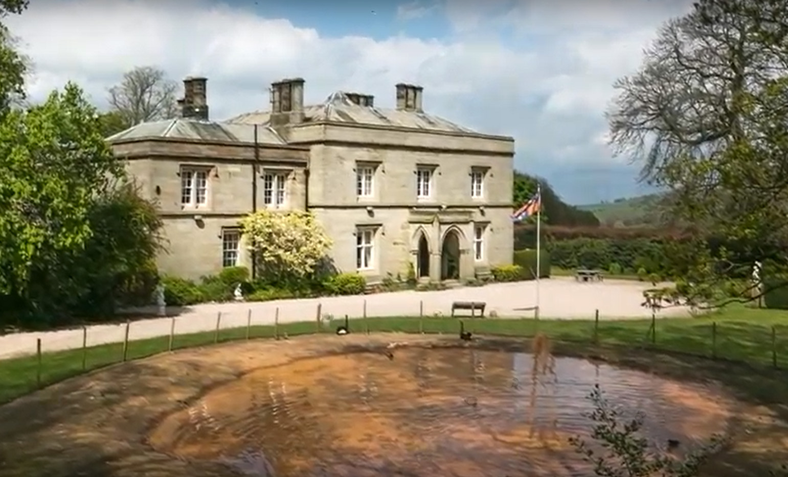 Caltthwaite Hall, Penrith, Cumbria